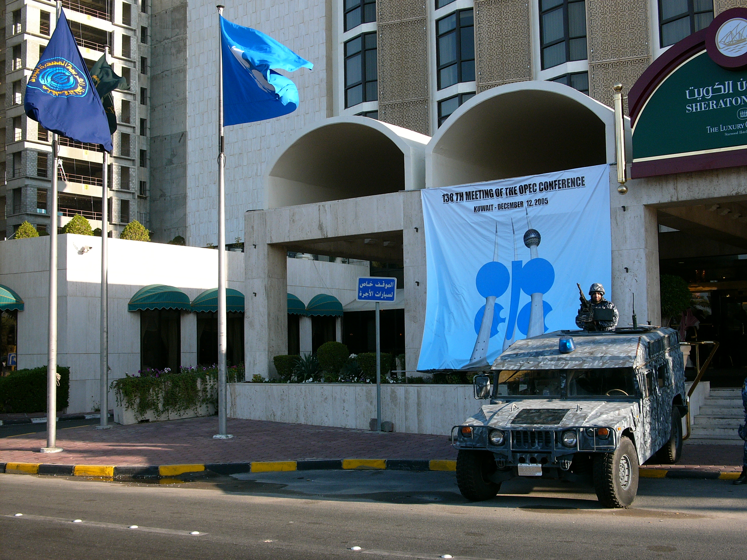 OPEC meeting in Kuwait at the Sheraton Kuwait hotel in december 2005.